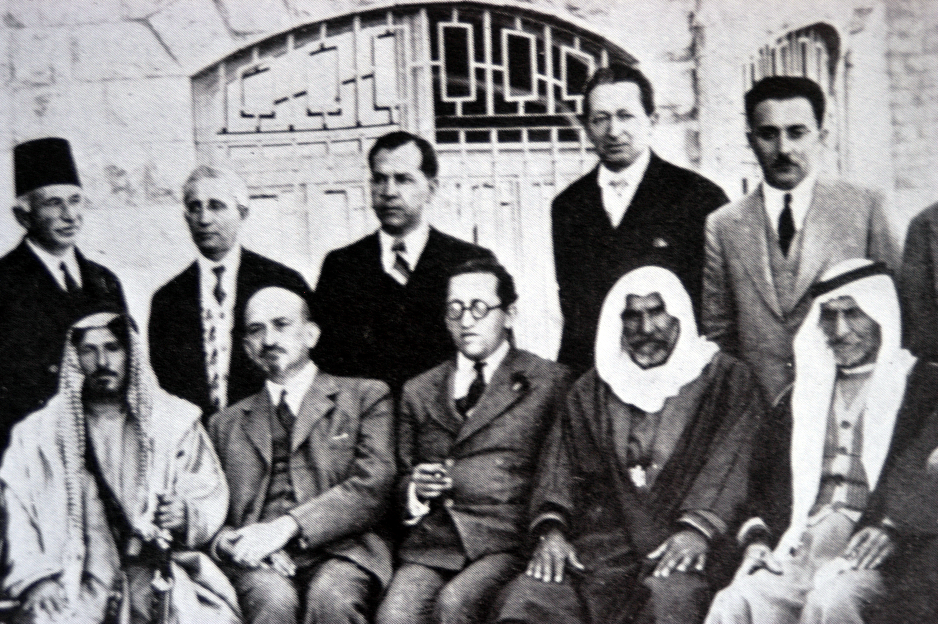 Haim Arlosoroff (seated centre) with Chaim Weizmann (to his left) at a meeting with Arab leaders at the King David Hotel, Jerusalem, 8 April 1933. Also pictured Moshe Shertok (Sharett) and Yitzhak Ben-Zvi (standing in the right). The representatives from Transjordan were Sheikh Mithqal Pasha al-Faiz, Chief of the Bani Sakhr; Rashid Pasha al-Khaza'i, supreme sheikh of Mount Ajlun; Mitri Pasha Zurikat, Christian leader from al-Karak district; Shams-ud-Din Bey Sami, Circassian leader, and Salim Pasha Abu al-Ajam, supreme sheik of the Belka region. Avraham Elmalih is standing second in the left. According to Davar, June 11, 1958, page 3, the picture was taken the eve of Passover 1931 at discussions on land sale in Transjordan (see File:Davar11 june1958 302.jpg).